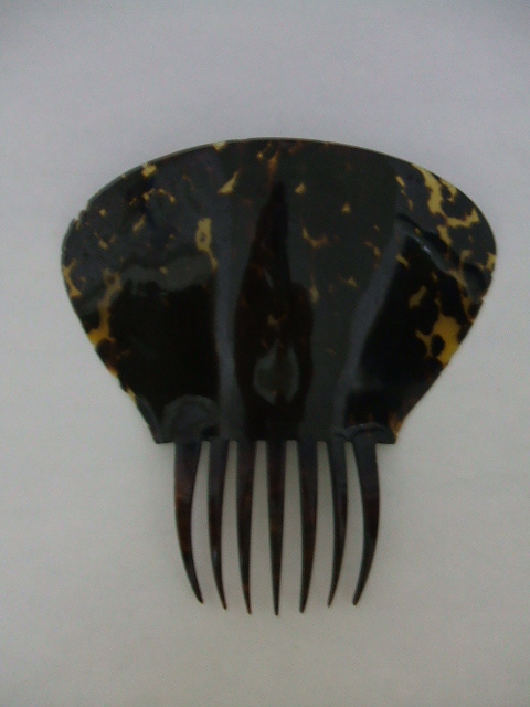 victorian hair comb in tortoise shell, dated 1835